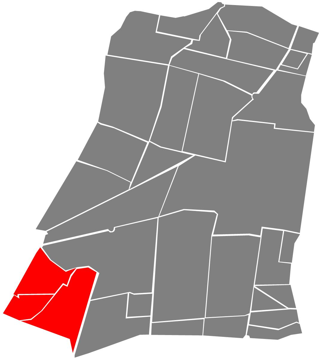 Map of Delegación Cuauhtemoc in Mexico City, with Colonia Condesa, Hipódromo and Hipodrómo Condesa Highlighted in red